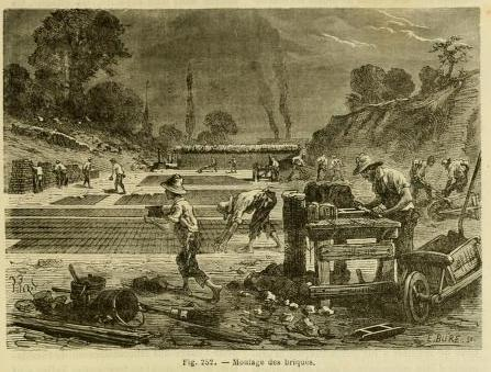 The process of brick manufacture in the nineteenth century